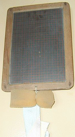 slate boards with sponge and rag. (~1950). however, slate boards where disappearing gradually circa 1930